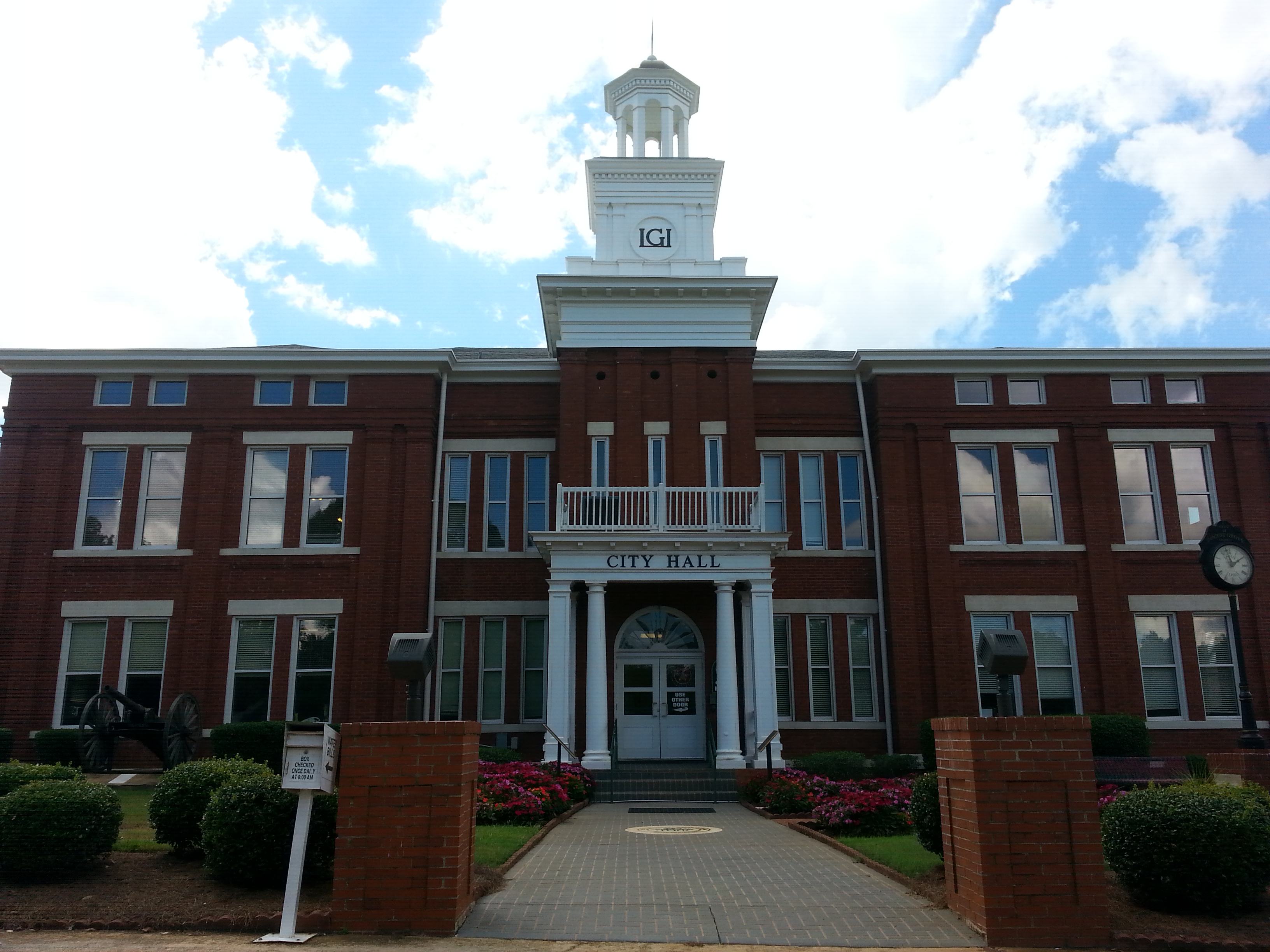 The Locust Grove Institute, originally built in 1904 as a school, now serves as City Hall for Locust Grove, Georgia, USA.